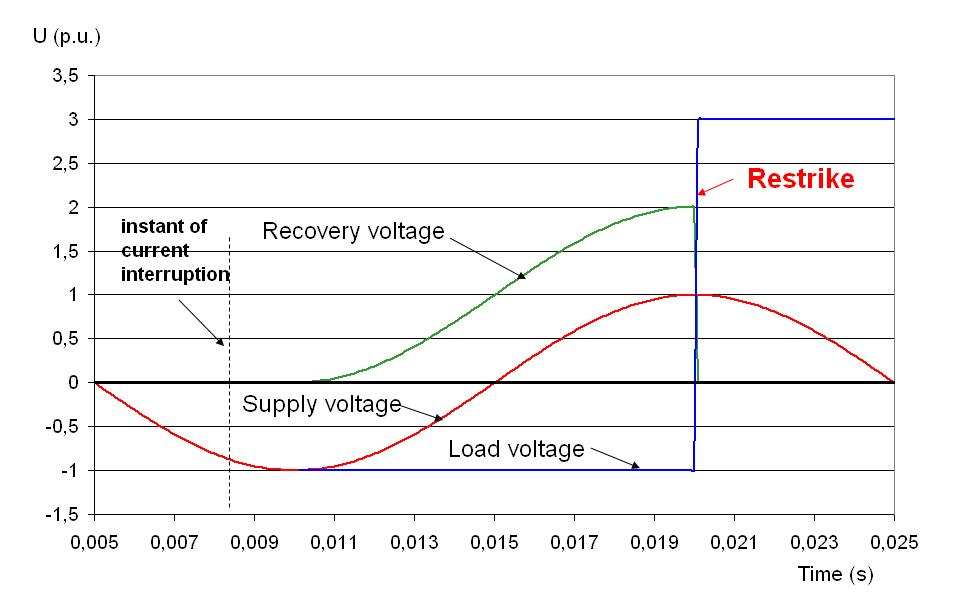 Restrike during capacitive current switching